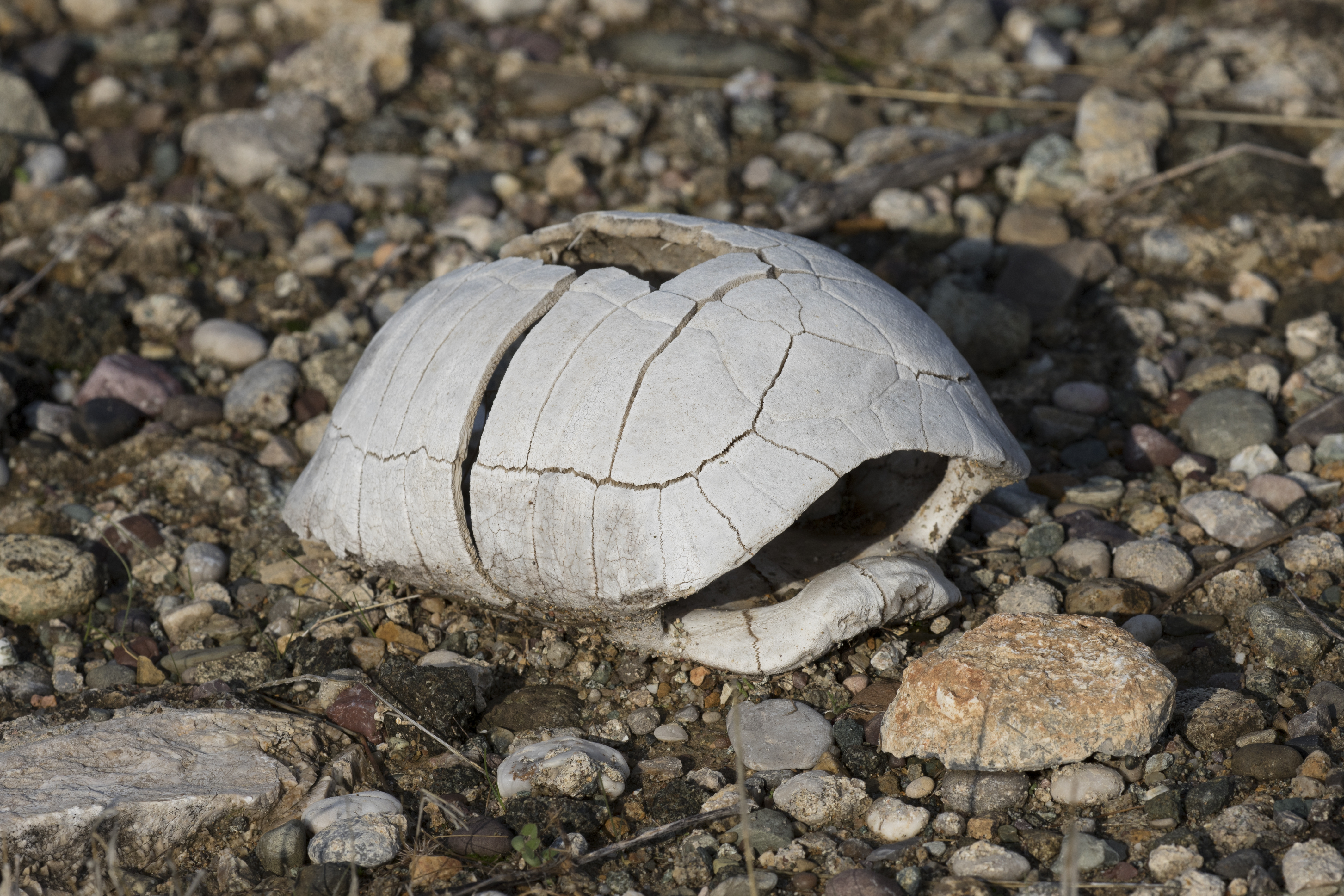 Skeleton of a Mediterranean Spur-thighed Tortoise (Testudo graeca). Eskibaraj Dam Lake, Adana - Turkey.